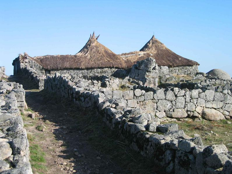 Hill Fort - Citânia of Sanfins - Paços de Ferreira - Portugal